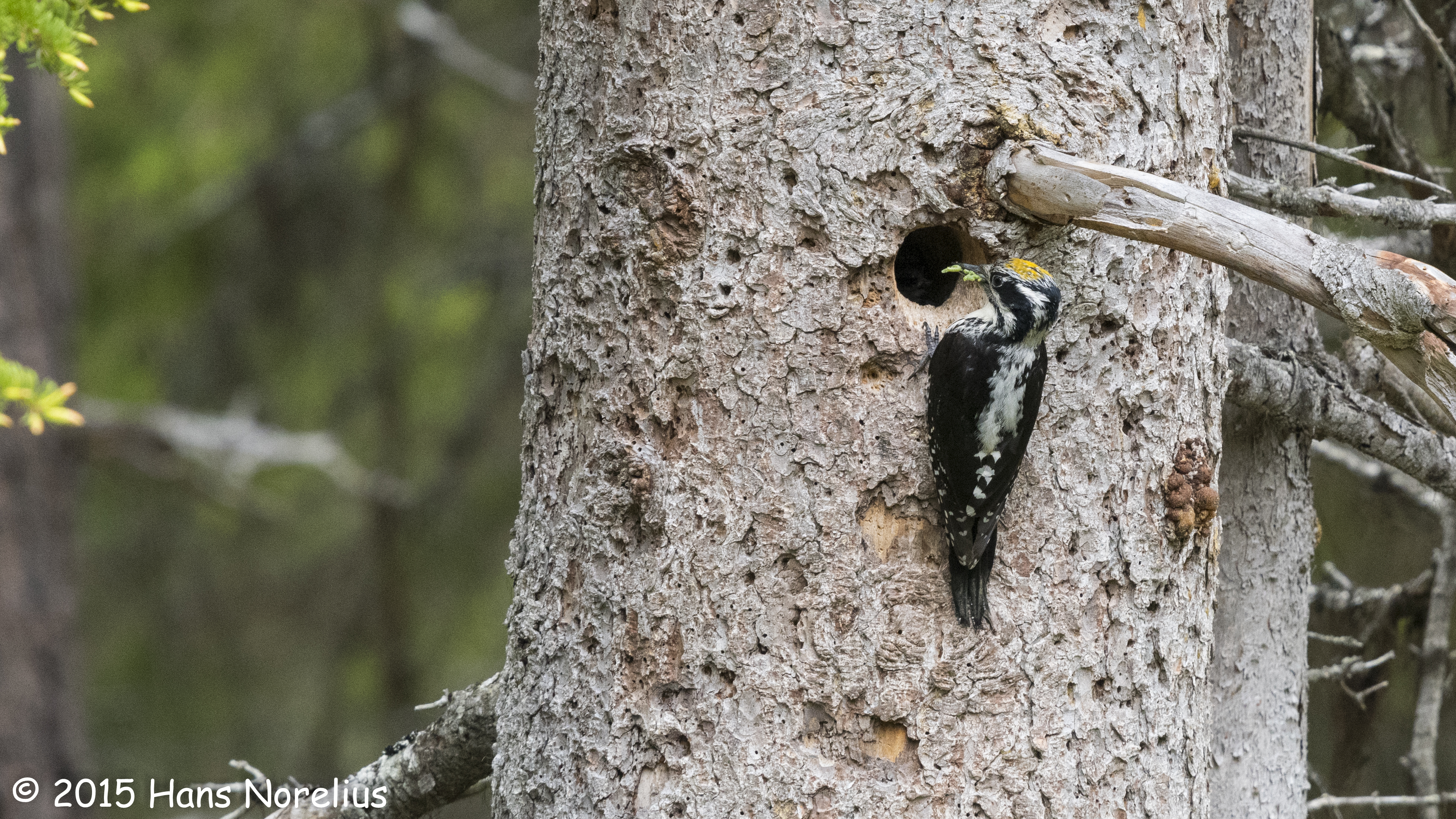 Three-toed Woodpecker, Pcoides tridactylus